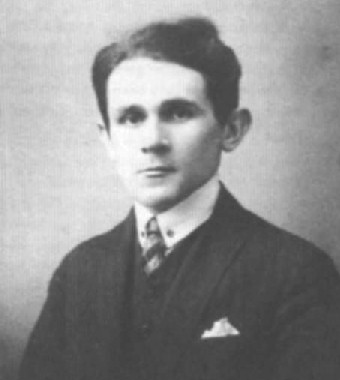 Polish writer, fine artist, literary critic and art teacher born to Jewish parents, and regarded as one of the great Polish-language prose stylists of the 20th century.